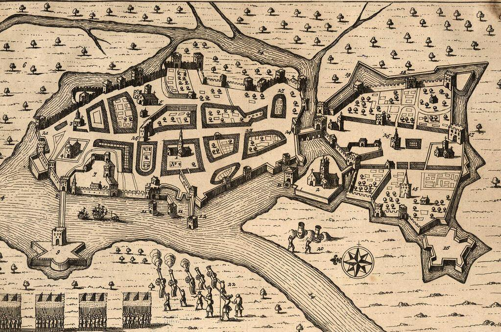 Etching of the siege of Limerick 1690